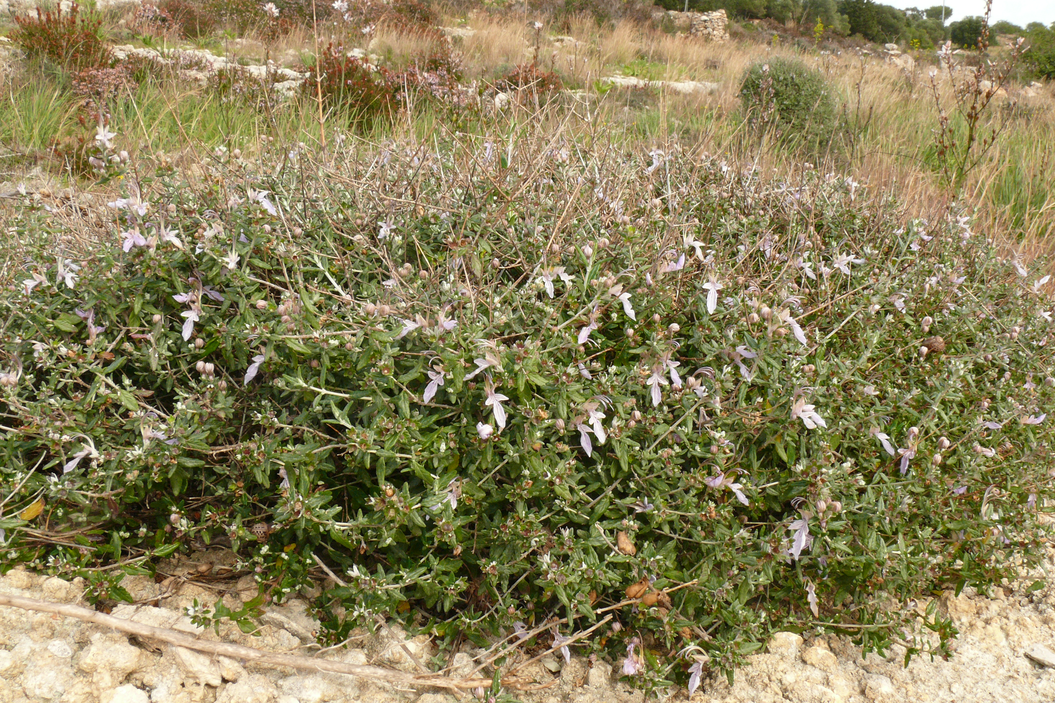 Teucrium fruticans